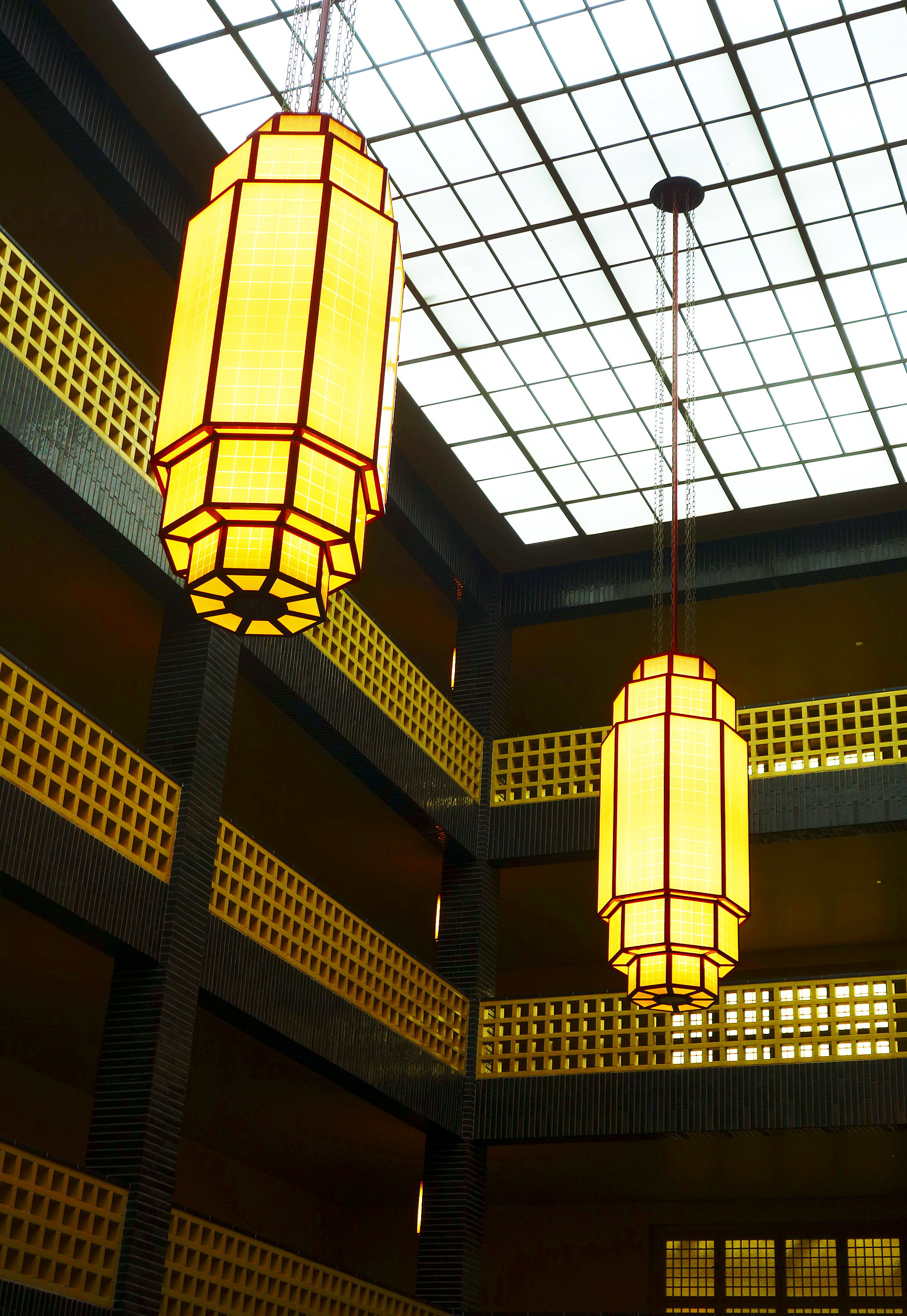 Haus des Rundfunks, Charlottenburg (Westend), Germany, August 2019